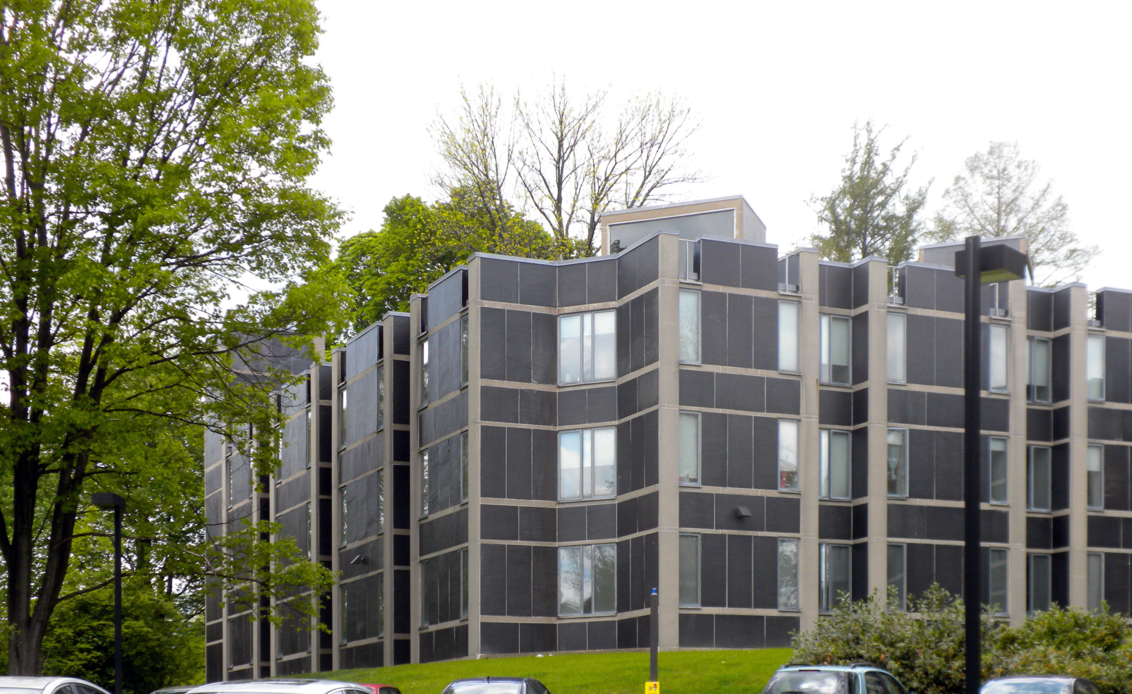 Erdman Hall Dormitory designed by Louis Kahn. Part of the Bryn Mawr College Historical District on the NRHP since May 4, 1979 the campus (HD) is between Morris Avenue, Yarrow Street and New Gulph Road in Bryn Mawr, Montgomery County, Pennsylvania